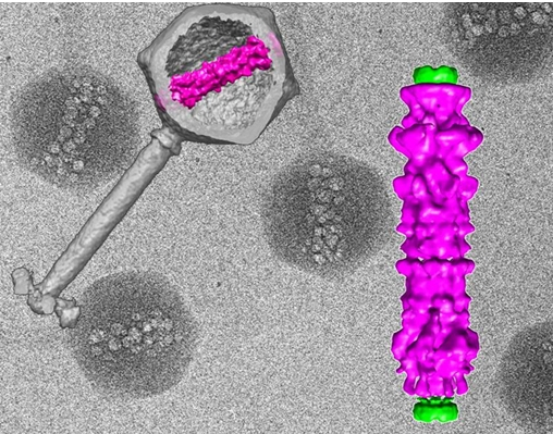 In the background, cryo-electron micrographs of purified viruses with their inner structure bubbling from radiation damage. Overlaid, (left) 3D computer reconstruction of a virus's outer shell and tail in gray, with the inner structure in magenta; (right) blow-up of the inner viral structure in magenta. National Institute of Arthritis and Musculoskeletal and Skin Diseases (NIAMS)